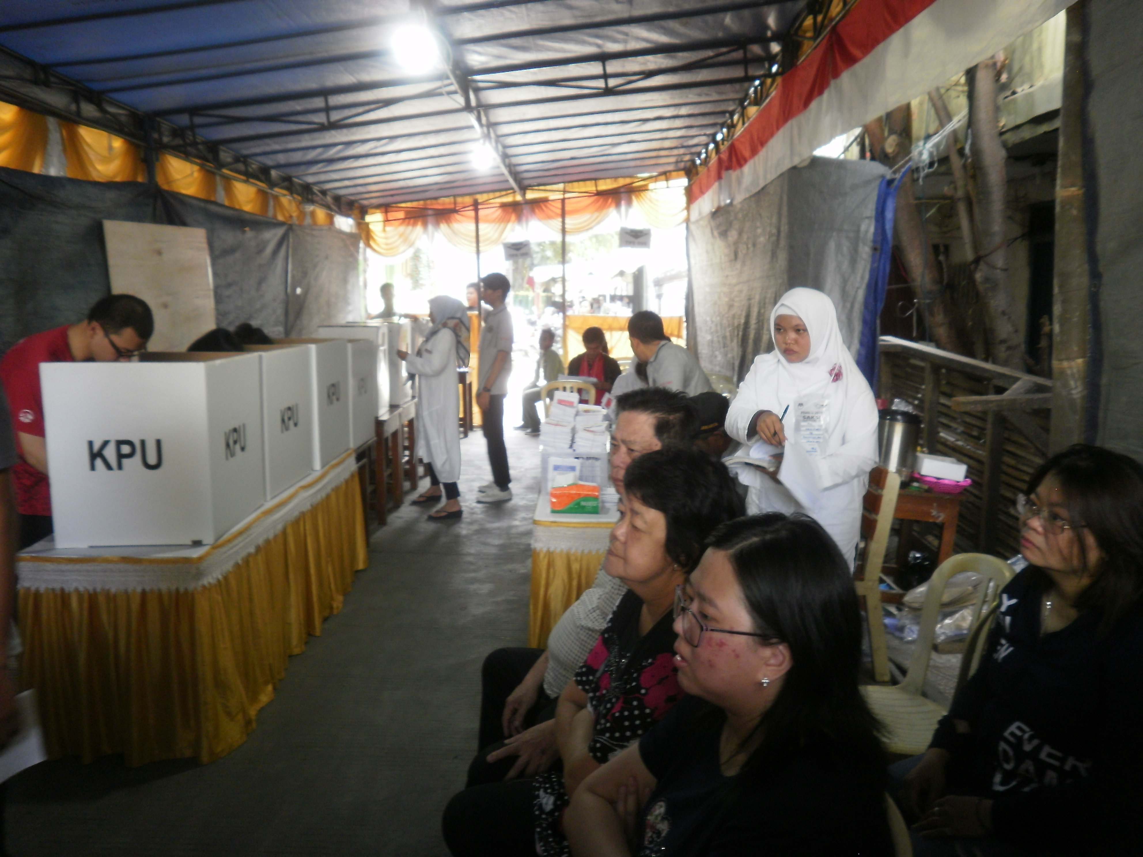 The election process in TPS 099 on North Jakarta, at the 2019 Indonesian General Election.